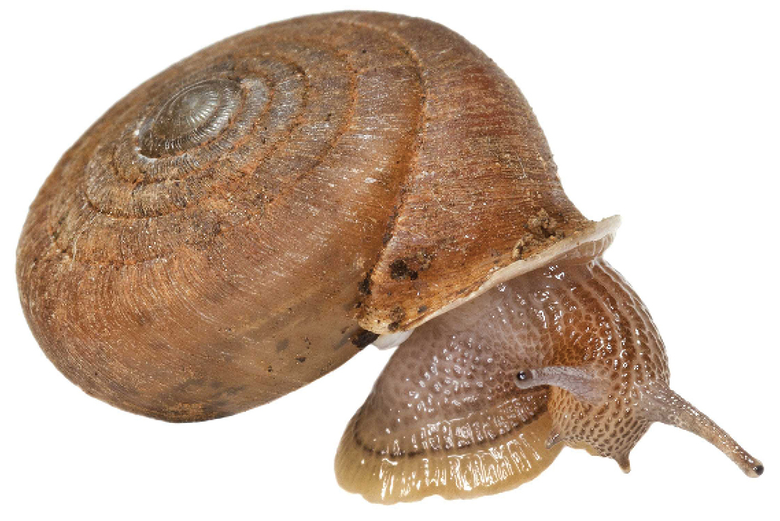 Photo of Gudeodiscus giardi giardi. Locality: Cao Bằng Province, Hòa An District, Nguyễn Huệ Commune, small hill just outside of Khau Trang Village, 22°33.510'N, 106°10.294'E, leg. Naggs, F. et al. 22.06.2011.